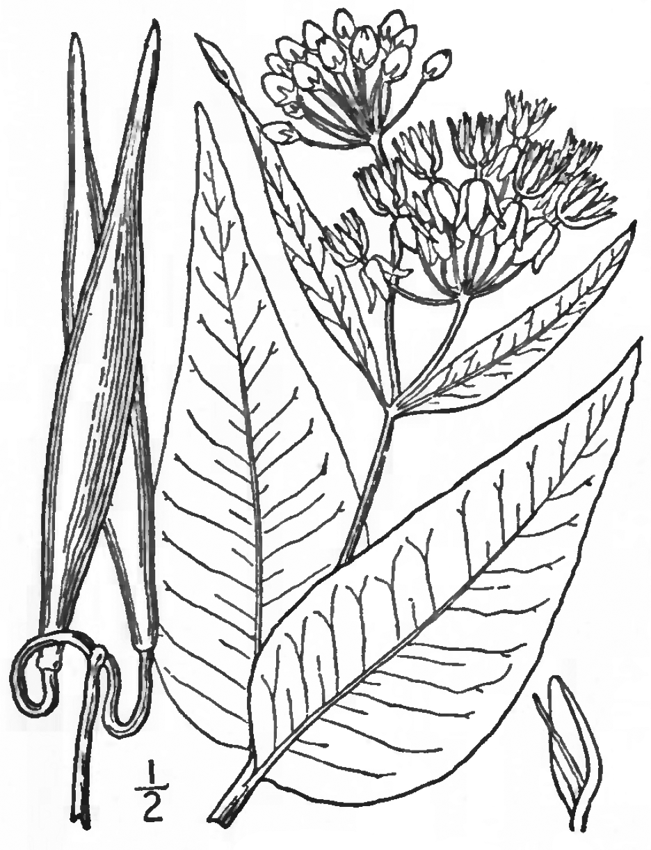 Fig. 3386. Asclepias rubra from the second edition of An Illustrated Flora of the Northern United States, Canada and the British Possessions (New York, 1913)